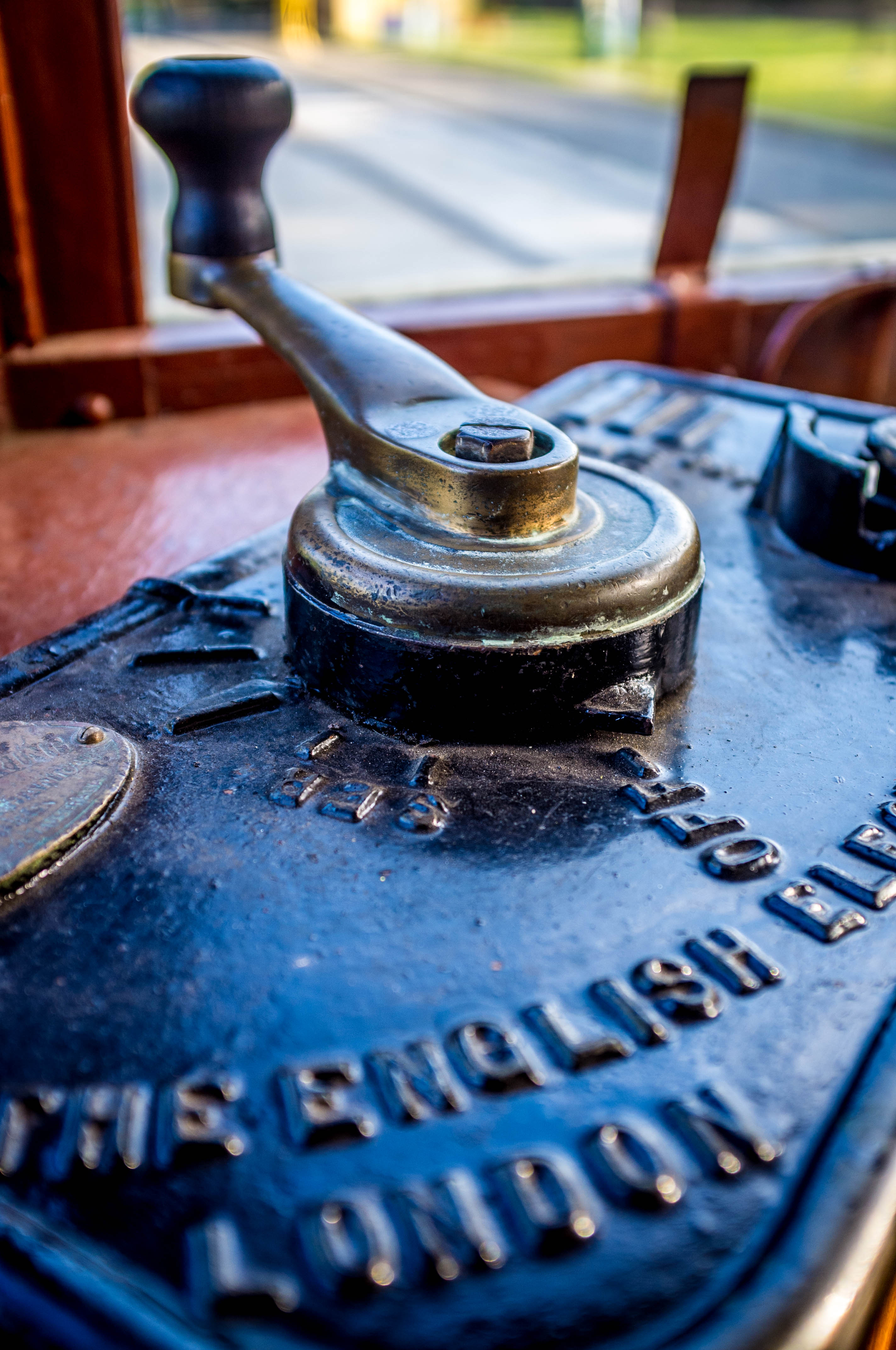 NSWDRTT R1-class Tram 1979 Controller